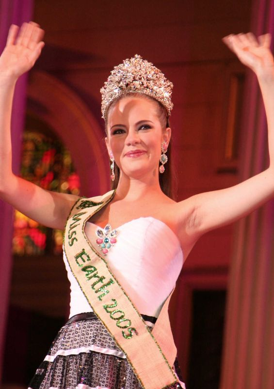 Miss Earth 2005, Alexandra Braun Waldeck during her farewell walk at Miss Earth 2006 coronation night.